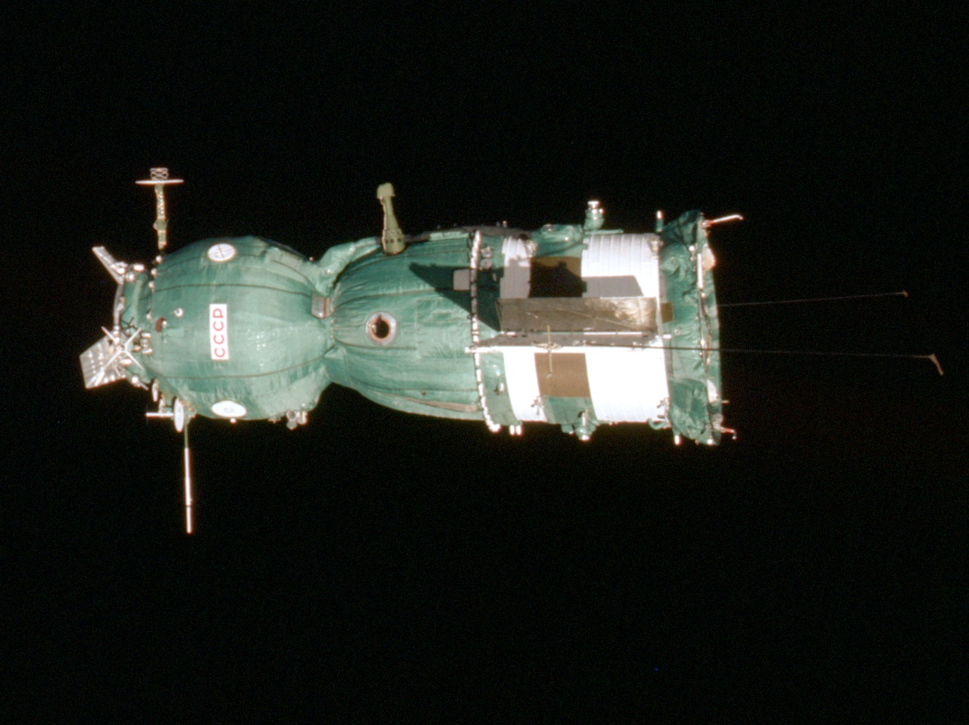 Apollo Soyuz Test Project ASTP, Soyuz-19,Side View, Range =45 Meters. Image taken on Revolution 60. Original Film Magazine: CX-12, Laboratory Roll 2; Camera Data: Hasselbald Reflex,70-mm, Model 500EL, NASA Modified; Film Data: 70-mm Ektachrome, MS, Type QX-807, ASA=64, 50mm Lens.